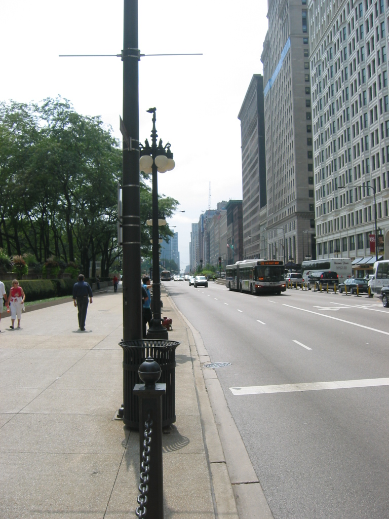 Michigan Avenue, outside the Art Institute of Chicago, Chicago, Illinois.